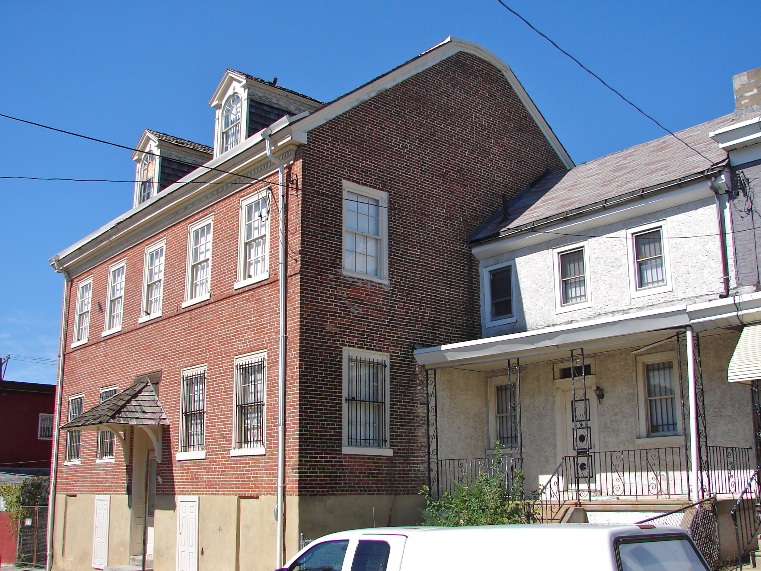 John Ruan House in Philadelphia on the NRHP since October 31, 1985. At 4278–4280 Griscom Street in the historic Frankford neighborhood in NE Philly. 4280 is the small gray building and 4280 is the larger brick building. Thanks to the guy in the neighborhood who pointed this out!